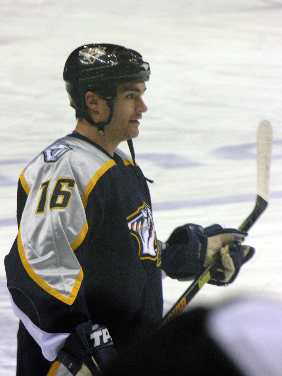 Darcy Hordichuk, Canadian ice hockey player of the Nashville Predators